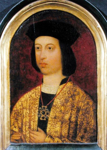 Title Ferdinand of Aragon Subject Ferdinand of Aragon (1452–1516), King of Spain 1474–1516 Inventory number Scharf XXVII Way/Museum No. 323 Materials Oil on oak panel Dimensions 310 x 205mm (12¼ x 8 inches) Artist Unknown Date Probably 1520s Frame Integral: 385 x 285mm (15 x 11¼ inches) Inscription On the bevelled lower edge of the frame, painted in black Gothic script: fernandus hispani[ae] re[x]